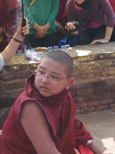 Jamgon Kongtrul Lodro Chokyi Nyima in Rajgir